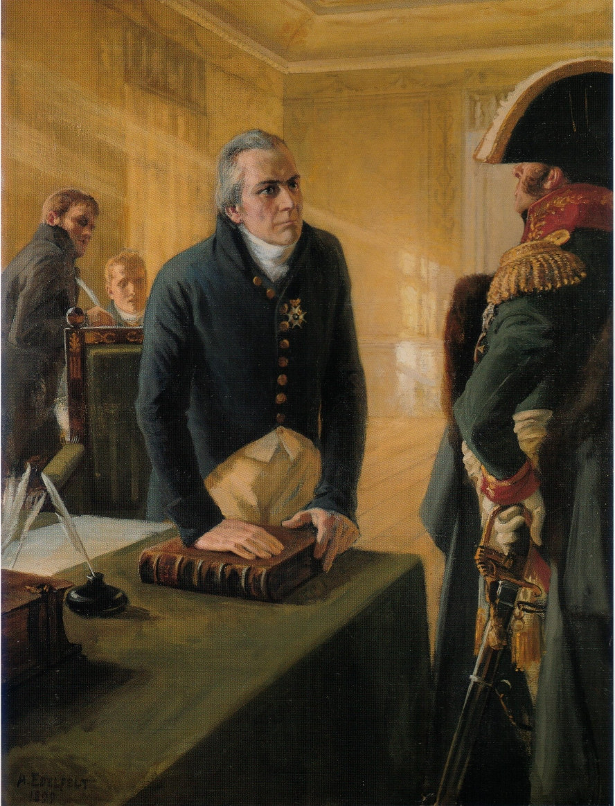 After the Finnish War of 1808-1809, the governor of Kuopio, Olof Wibelius, meets the commander of the Russian forces, count Fredrik Wilhelm von Buxhoevden, who tells him that Sweden has lost the war against Russia. With his hand firmly placed on a collection of laws, Wibelius tells the commander that the law will survive them both.